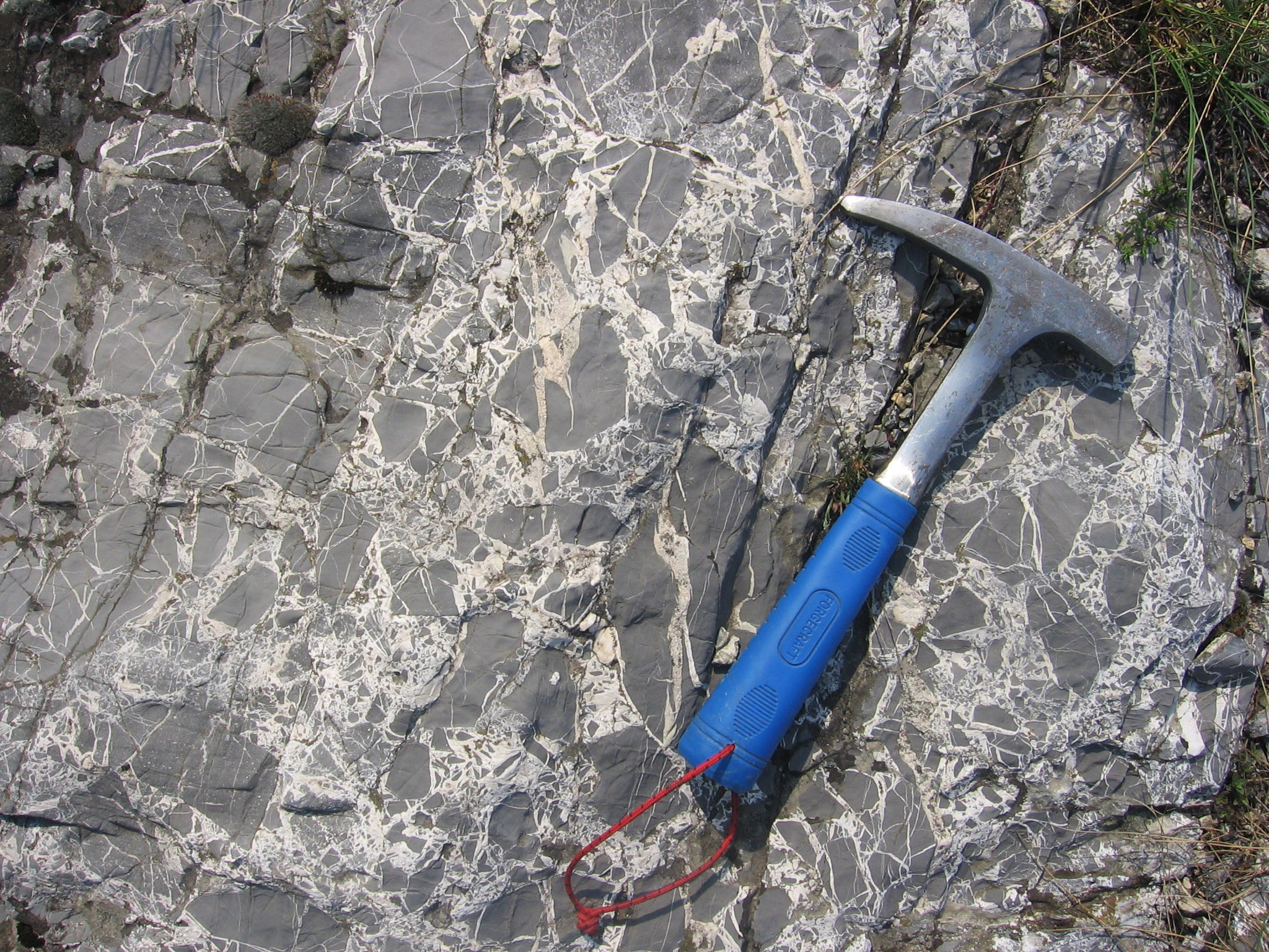 Brecciated (resedimented or intraformational carbonate conglomerate) dolostone in limestone matrix of Lower Jurassic (Lias) age. Pleš breccia. Slope of Devínska Kobyla, Malé Karpaty Mts. (Western Carpathians), Slovakia. Autochtonous sedimentary cover of the Tatricum. (Hammer is 28 cm long.)